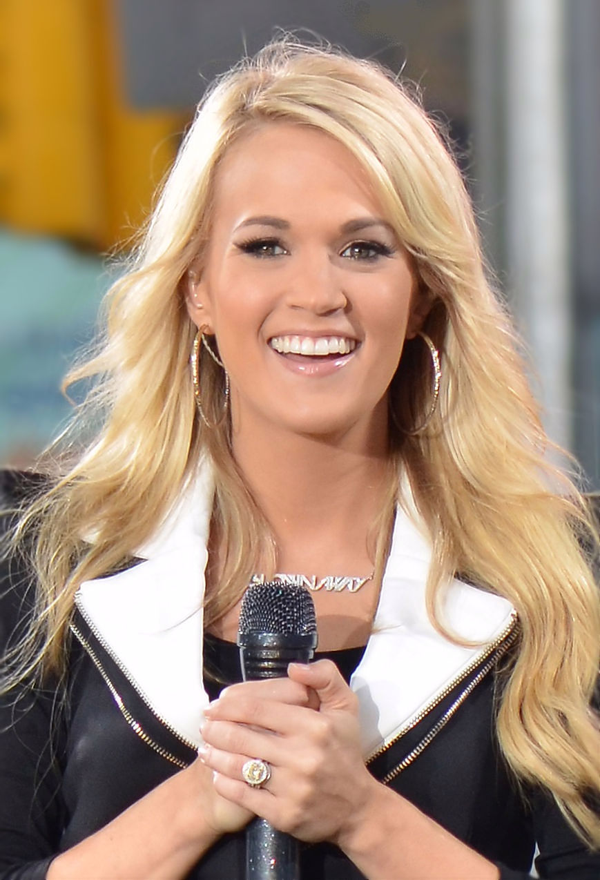 Carrie Underwood performing in Times Square, NYC, in 2012. Photo is a cropped and retouched version of a larger photo published at Flickr.